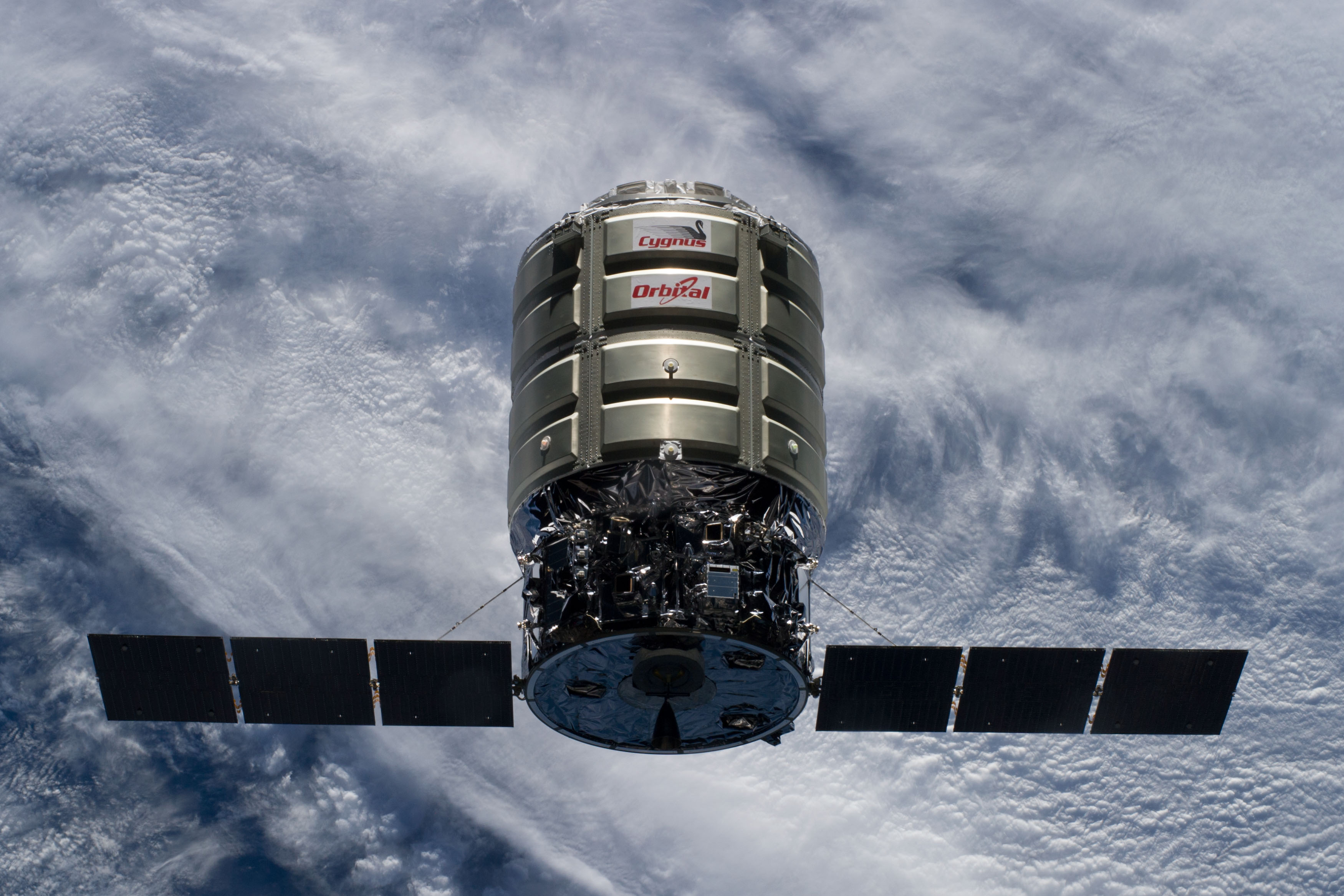 Backdropped by a cloud-covered part of Earth, the Orbital Sciences' Cygnus cargo craft approaches the International Space Station, photographed by an Expedition 40 crew member. The two spacecraft converged at 6:36 a.m. (EDT) on July 16, 2014.